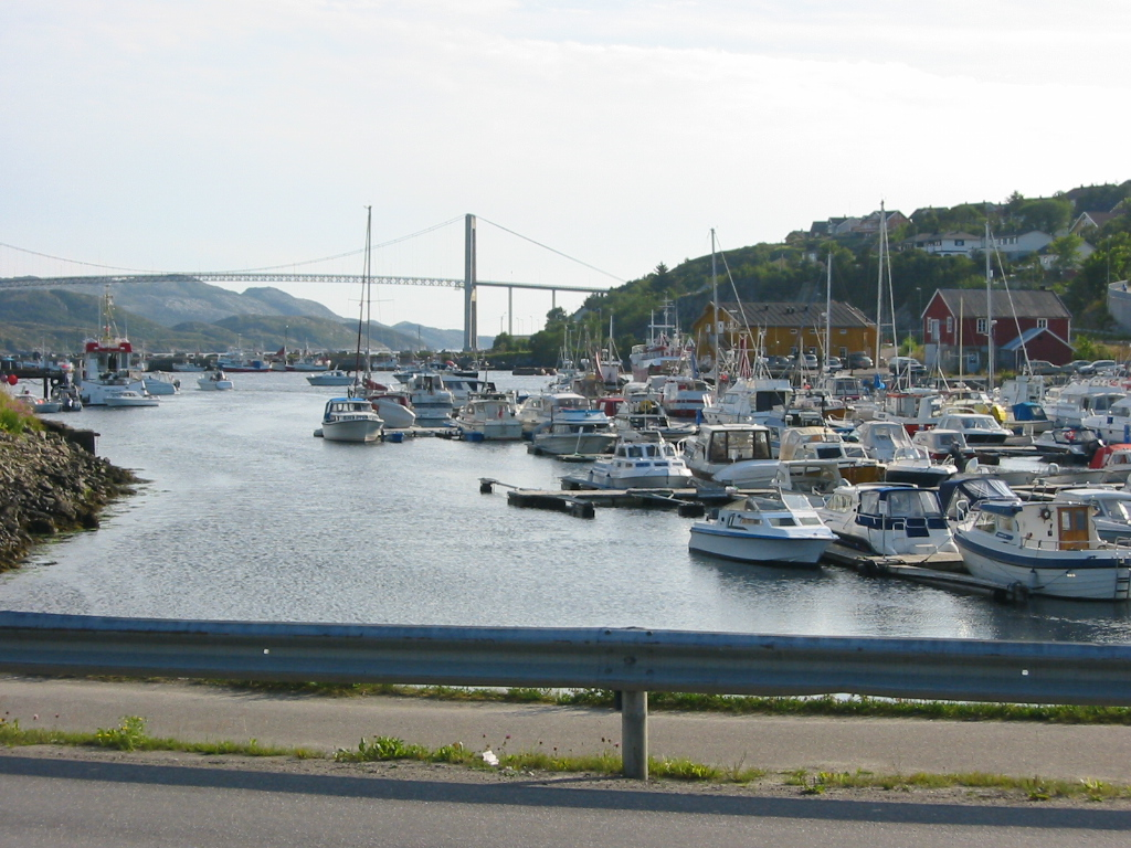 Part of the harbor in Rørvik town, Vikna municipality in Norway. The bridge in the background is part of the road connecting Vikna to the mainland. Hurtigruten (the coastal steamer) goes under the bridge. Picture taken by myself. Orcaborealis.